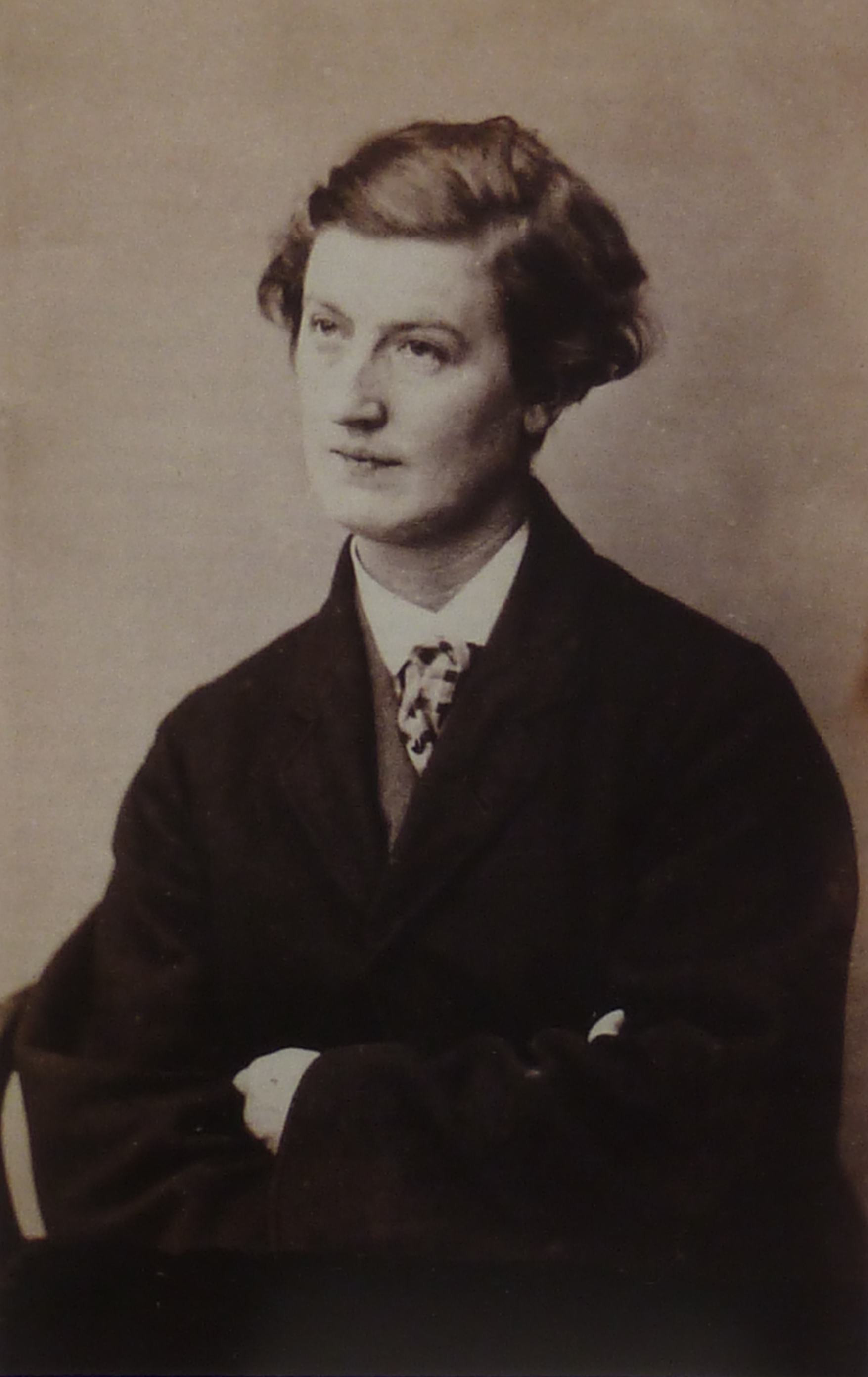 Portrait of Hannah Cullwick dressed in man, 1860. Trinity College Library, Cambridge. Arthur Munby collection.